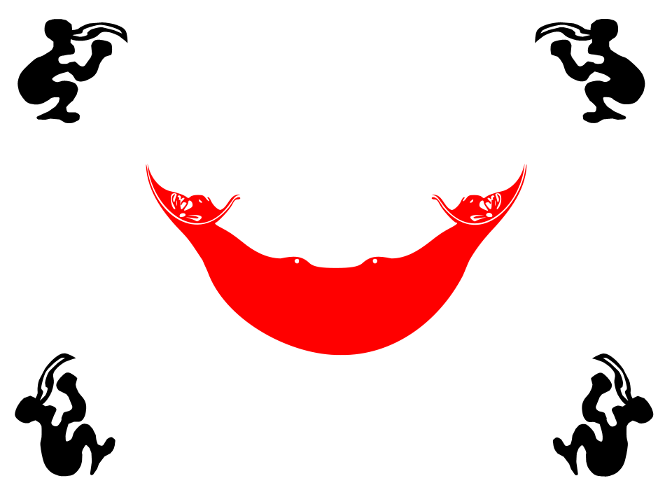 Flag of the Kingdom of Easter Island, used until Chilean annexion in 1888.